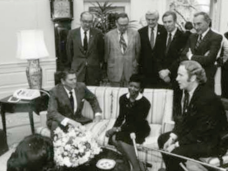 Mildred Jefferson meeting with Ronald Reagan about Right to Life movement